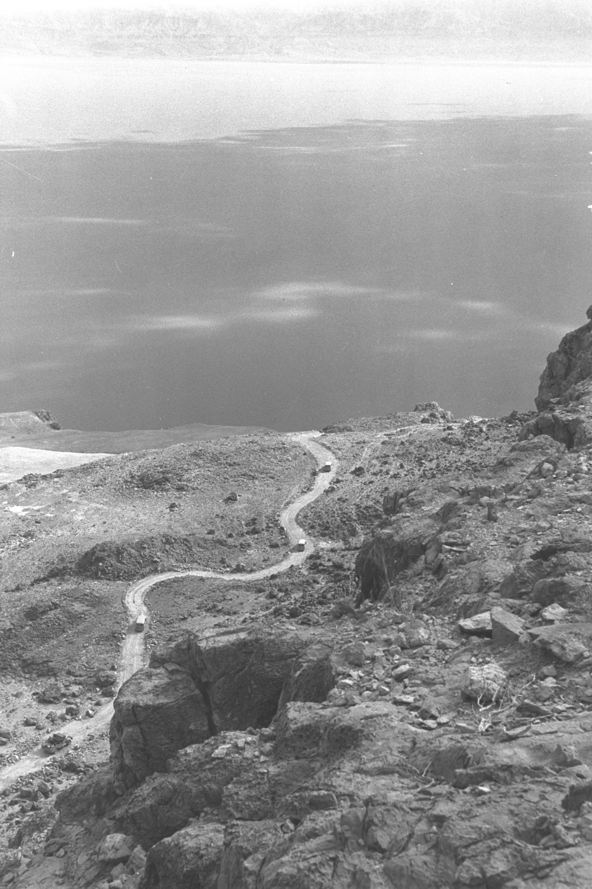 "MAALH YAIR" A PASS FROM THE ZOHAR HILLS TO THE DEAD SEA, DISCOVERED BY THE LATE SEREN YAIR PELED, AND SINCE WIDENED.